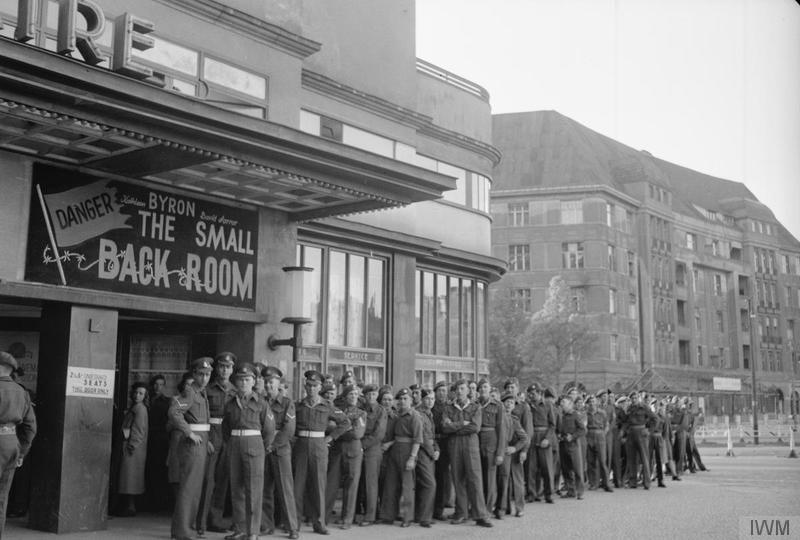 BER 49-159-001 The Berlin Blockade, 1949. British troops queue outside the Jerboa Cinema, Reichskanzler Platz, where the singer Anne Shelton was due to perform on 4 May 1949. During the Airlift, only one entertainer was allowed to visit British forces in Berlin. Anne Shelton was chosen by popular vote. She flew to Berlin on one of the Airlift's transport aircraft along with a cargo of fuel and food. During a three day visit, she performed 12 shows.